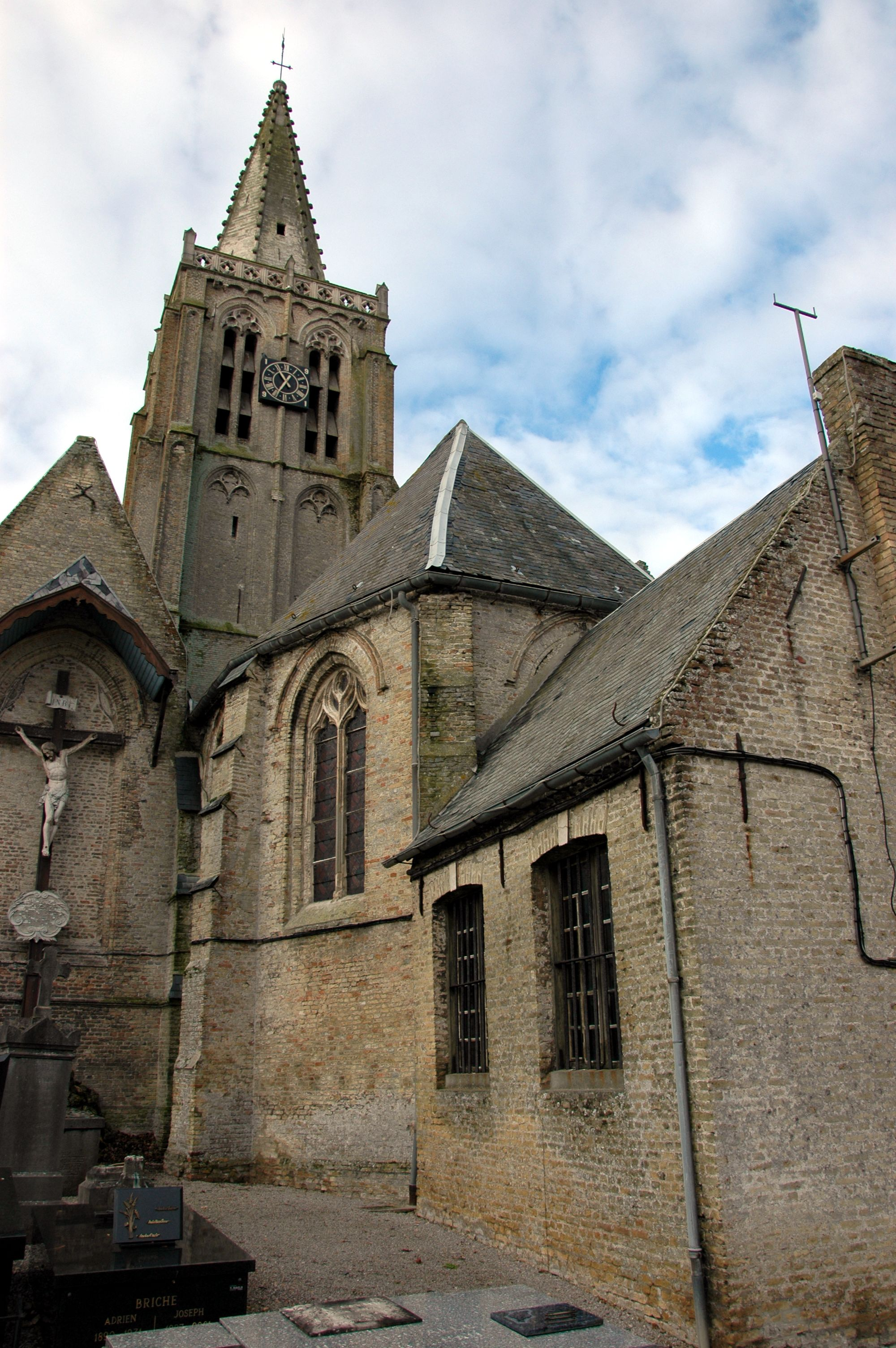 Millam St Omer church (2009/02).